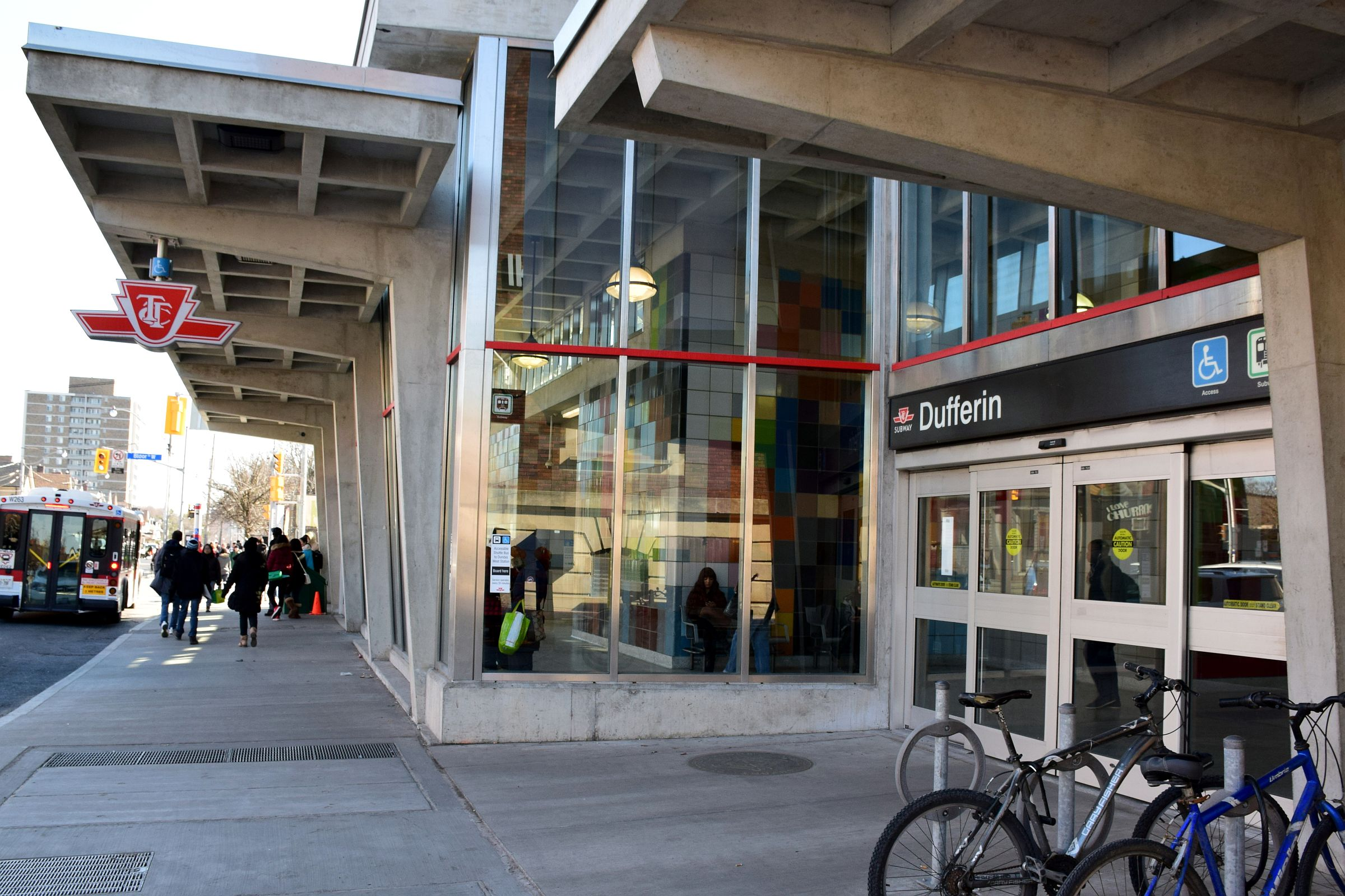 Dufferin TTC subway station in Toronto